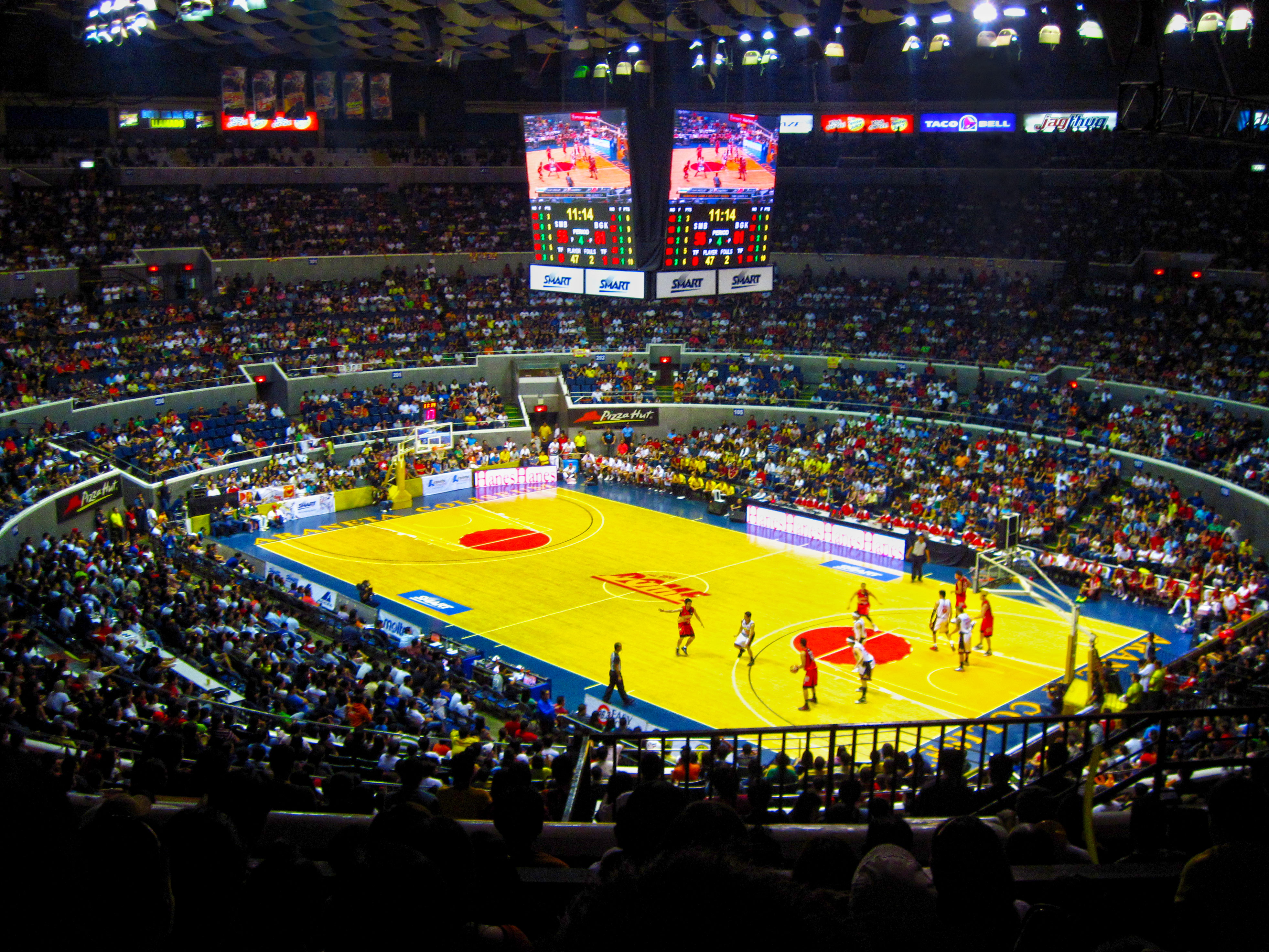 Image of the Araneta Coliseum with the newly installed "Big Cube" LED display.